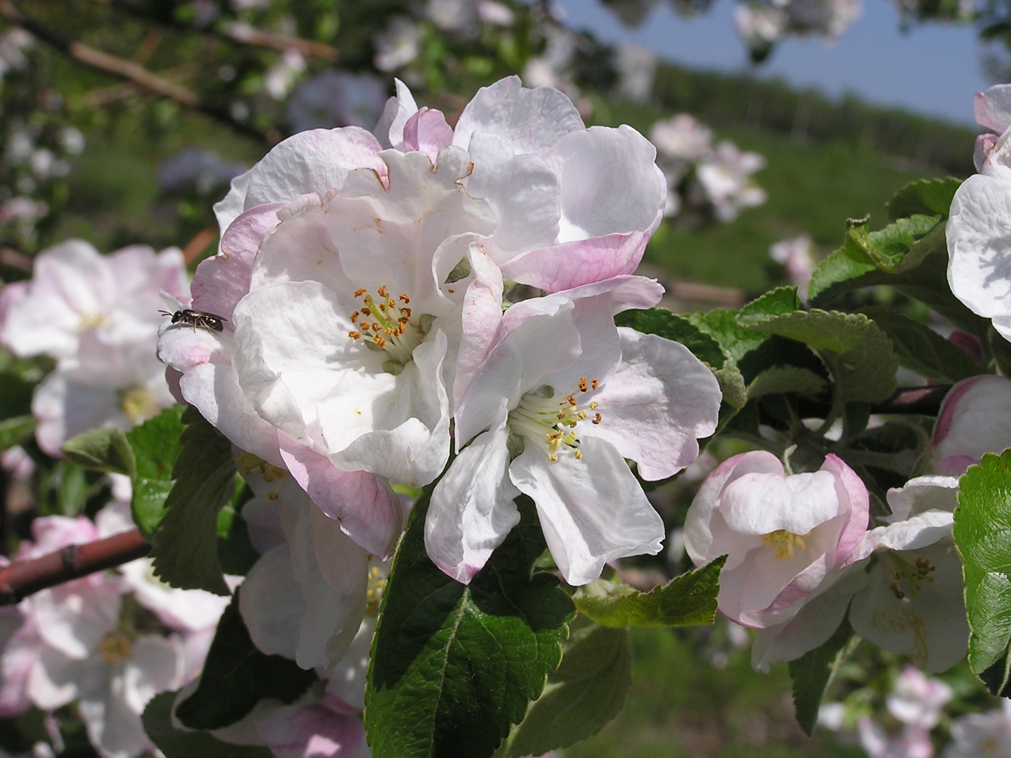 Plant